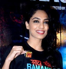 Dhulipala at the special screening of 'Raman Raghav 2.0'